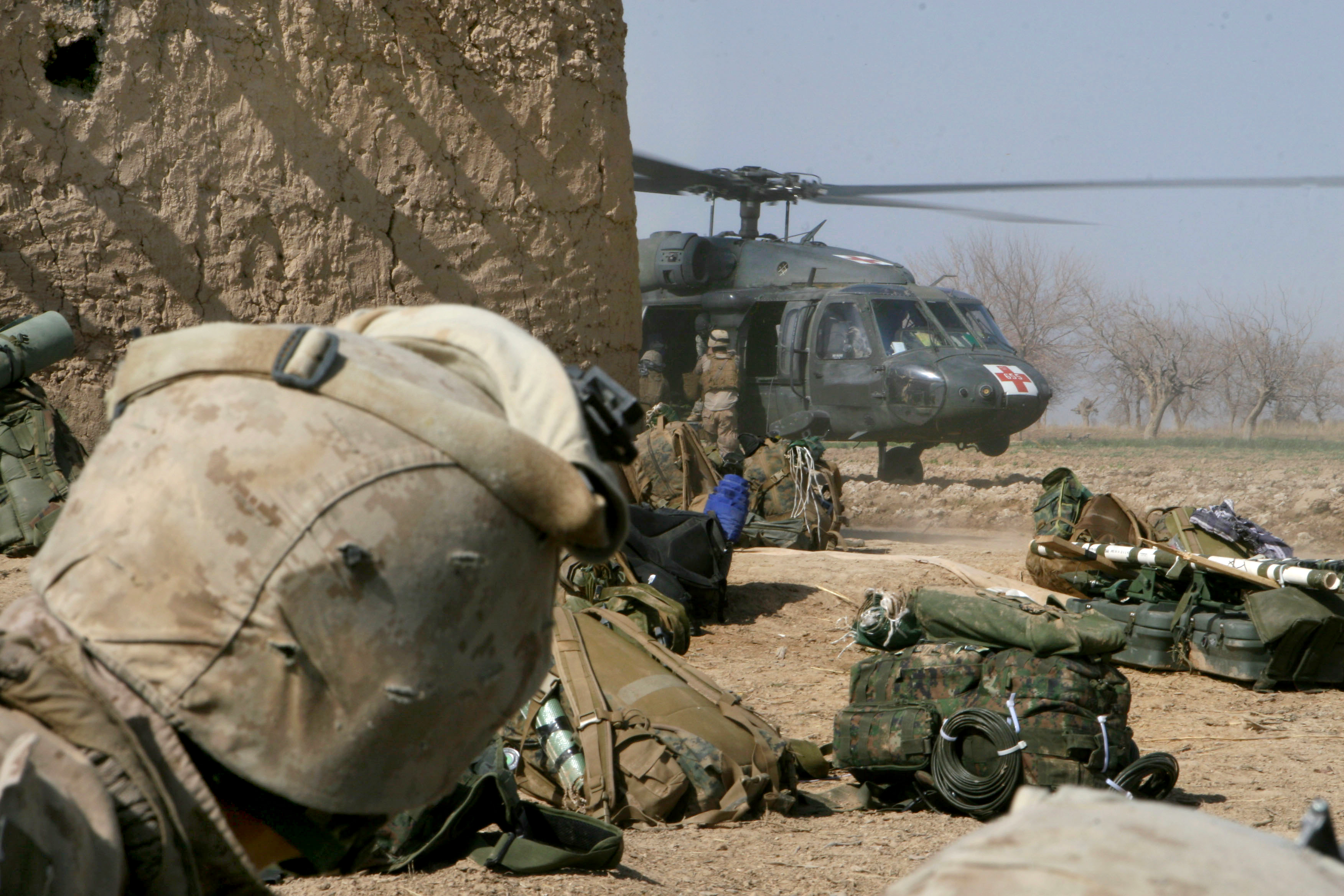 A UH-60 Black Hawk helicopter lands for an emergency medical evacuation while U.S. Marines and Afghan soldiers prepare to provide covering fire on the outskirts of the city of Marja in Helmand province, Afghanistan.